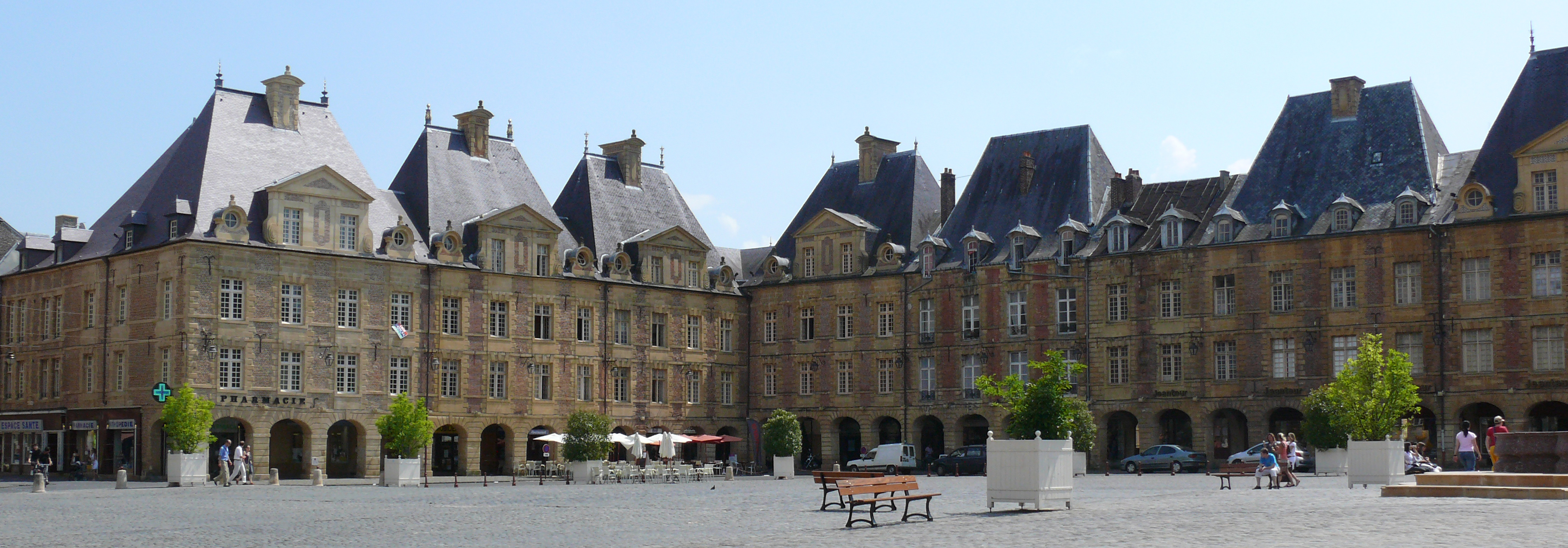 The Place ducale is the most important square of Charleville-Mezières. It was constructed in 1606 by Clément Métezeau. Charleville Mezières is a French town in the département des Ardennes and the region Champagne-Ardenne.